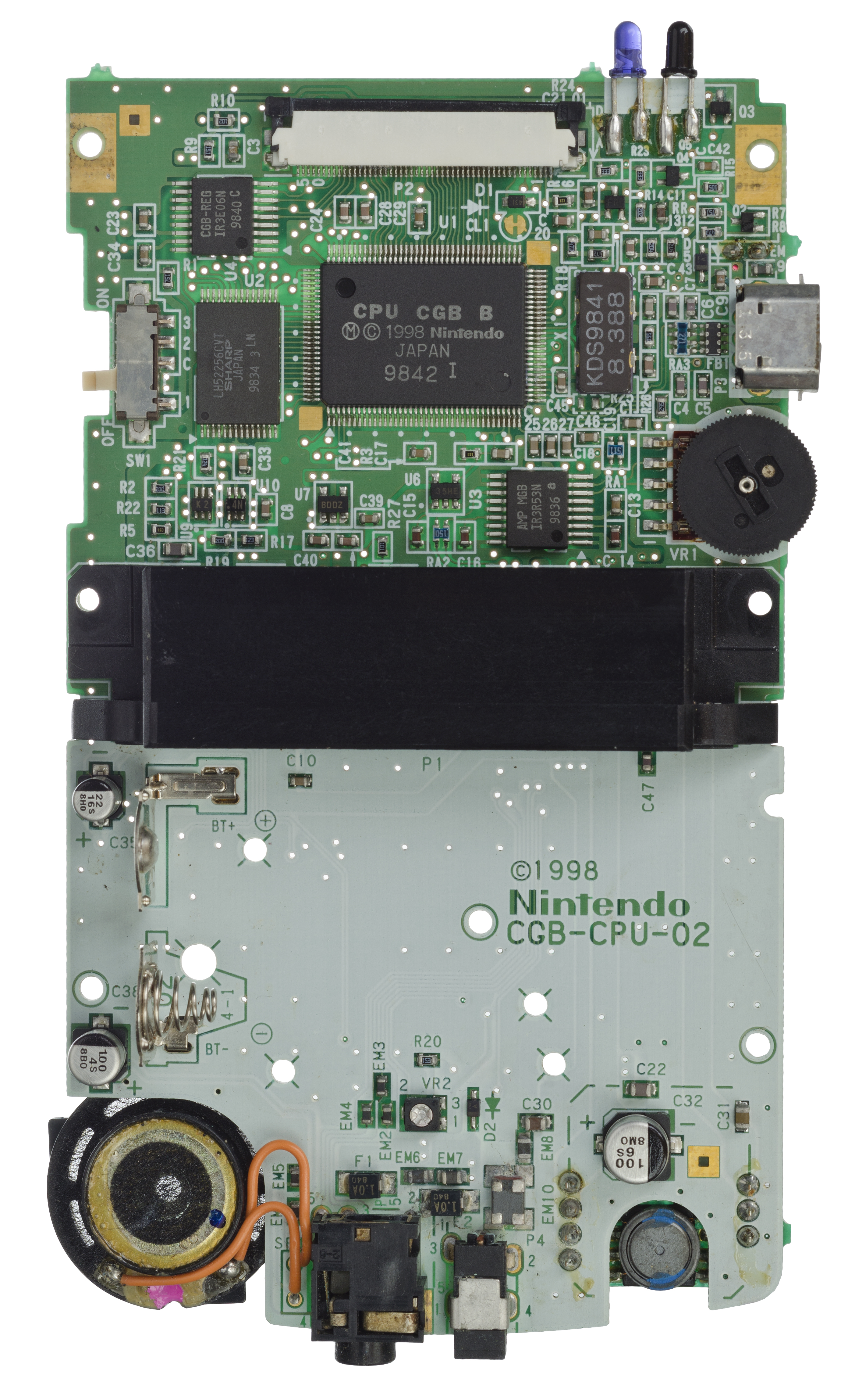 The motherboard of a Game Boy Color, a handheld gaming console released by Nintendo in 1998. The Game Boy Color uses a custom Z80-based processor that can run in either 4.388 or 8.338 MHz.